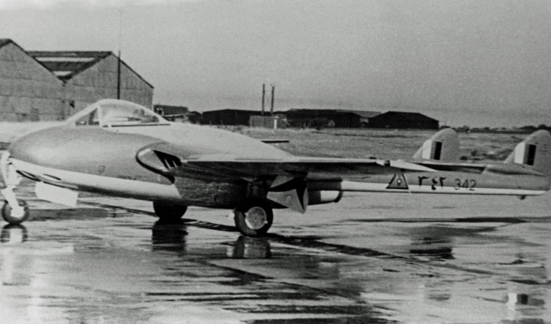 De Havilland Vampire FB.52 of the Iraq Air Force, newly built at Manchester (Ringway ) Airport in August 1953